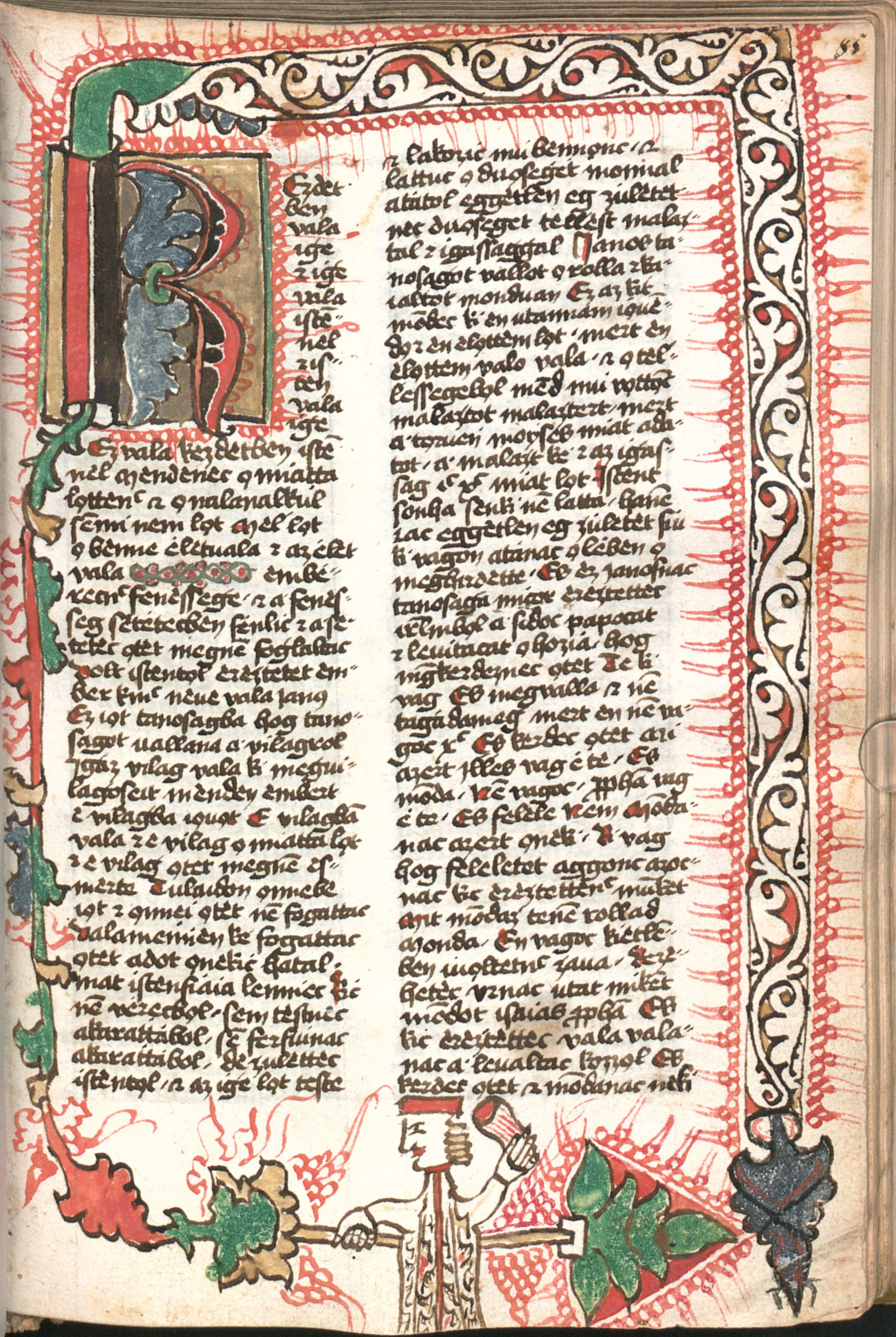 A copy of the Hussite Bible, in the Codex of München, dated to 1466. The Hussite Bible was the first ever translation of the Bible in the Hungarian language. This one is the first page of the New Testament.